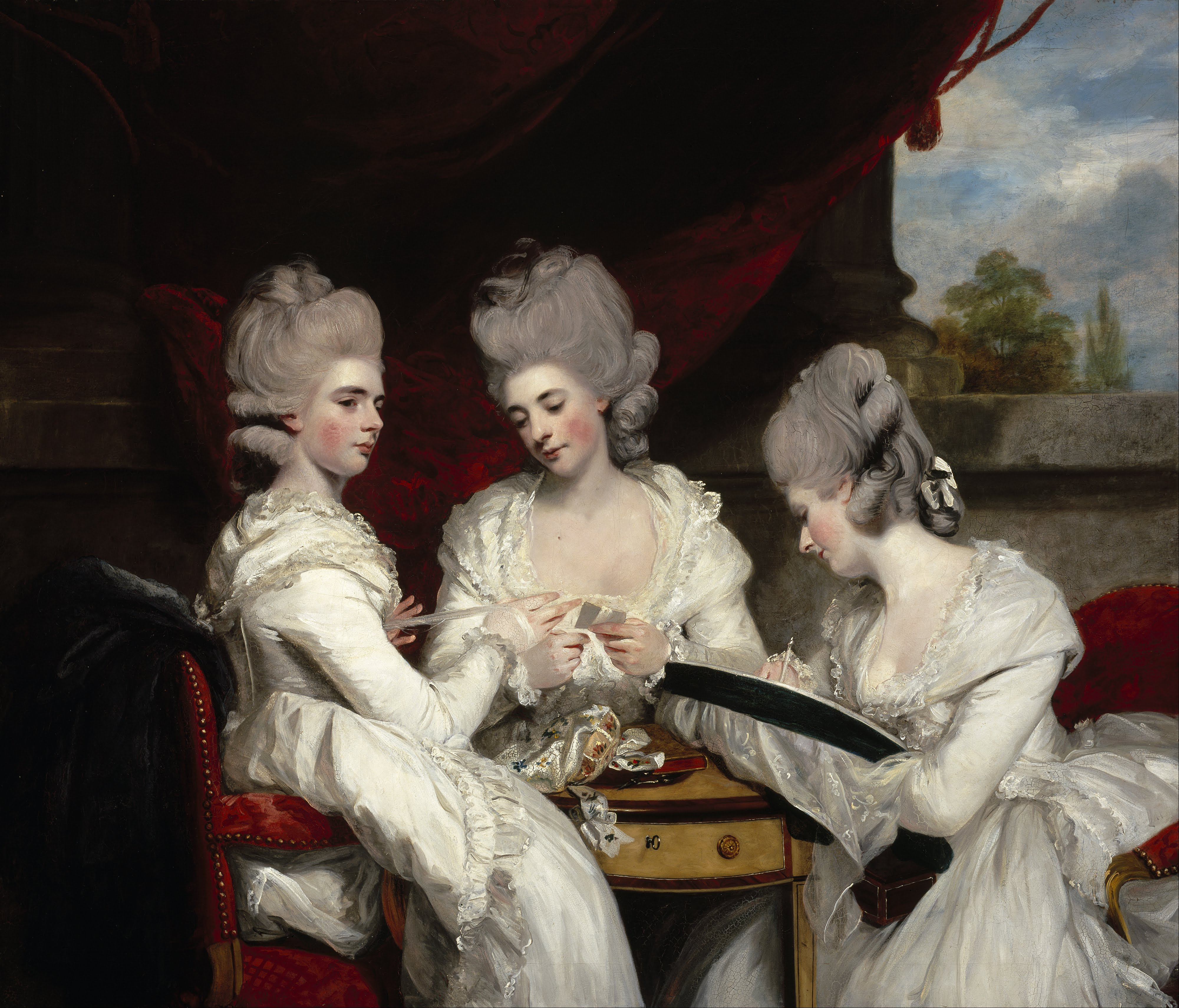 The daughters of the 2nd Earl Waldegrave: Lady Elizabeth (1760-1816) Lady Charlotte (1761-1808) Lady Anna (1762–1801)